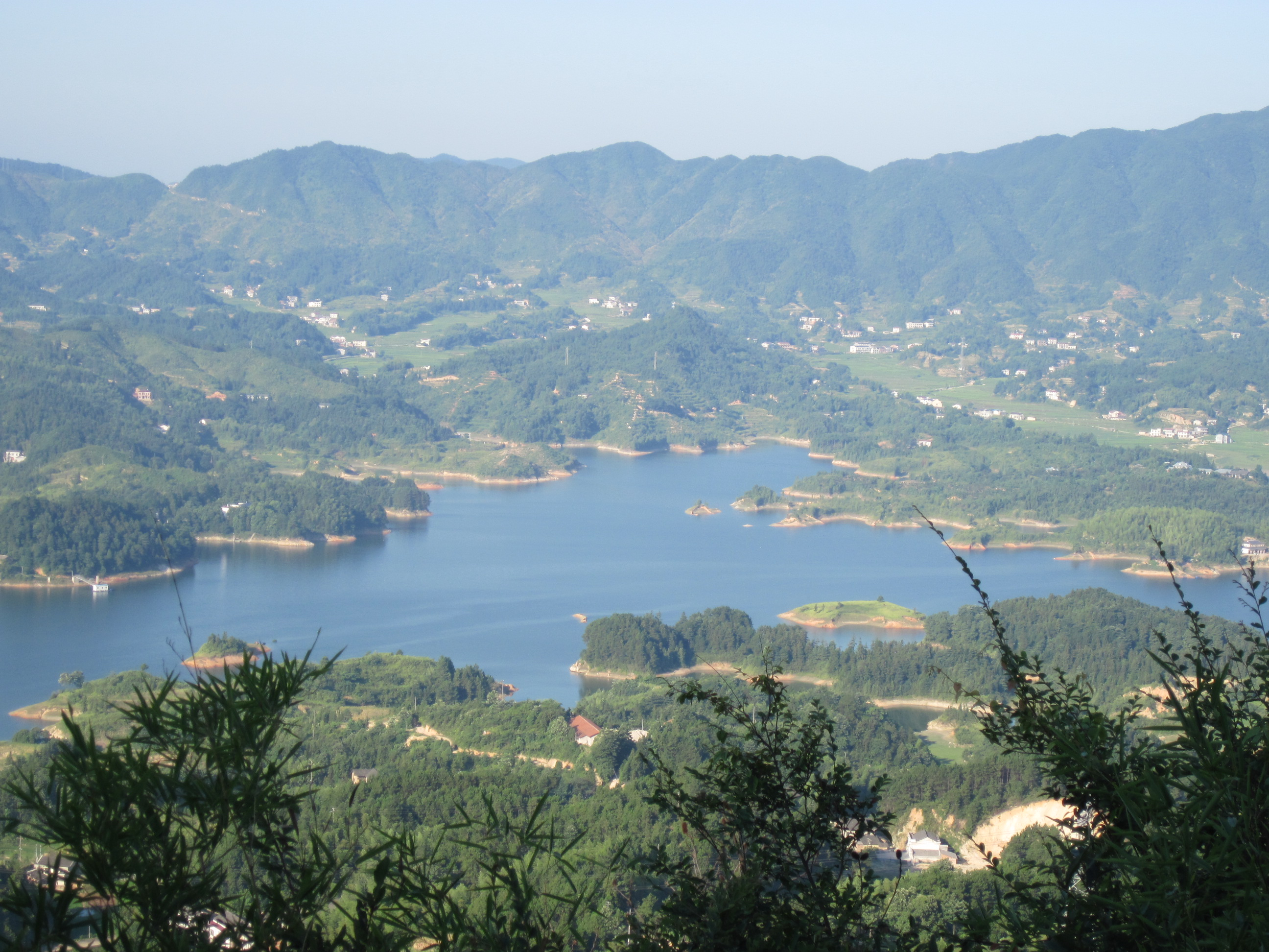 Puji Temple (Chinese: 普济寺; pinyin: Pǔjì sì) is a Buddhist temple located in Qing Shanqiao Town,Ningxiang County,Changsha City,Hunan province, China.